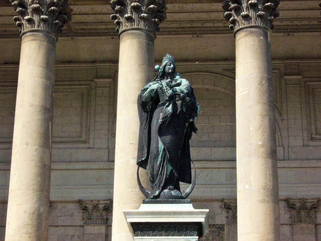 Statue of Hungarian Great woman (Virgin Mary), Esztegom, St. Stephen's Square, before the basilica